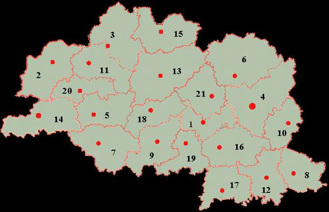 Vitebsk oblast (Belorussia) with regoins numbered. By Al Silonov